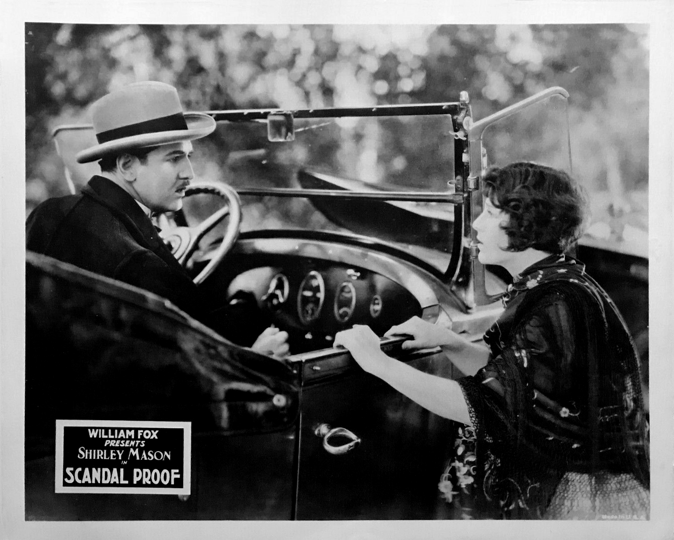 This is a lobby card for the 1925 American silent drama film Scandal Proof.